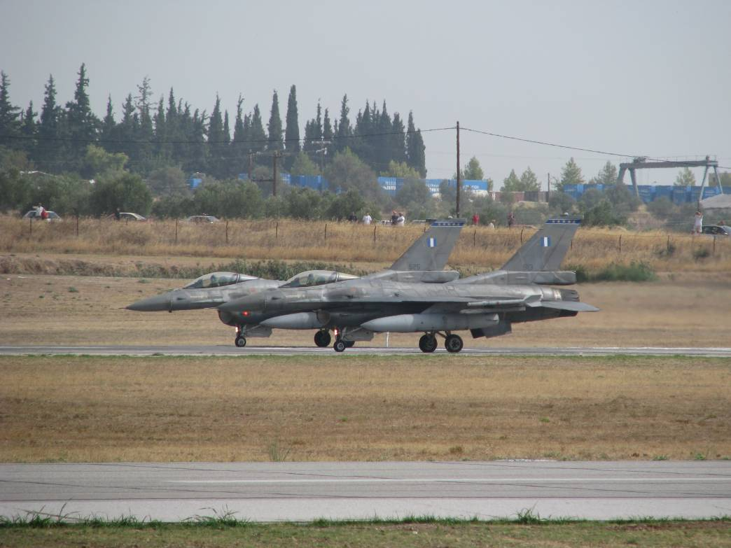 Two Hellenic Air Force F-16 Fighting Falcons are getting ready to take off during the 2008 HAF air show, in Tanagra airbase, Greece